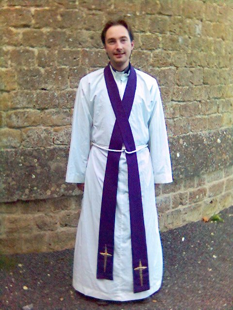 Picture of an Anglican priest vested in an alb, cincture and purple stole.Taken by Gareth Hughes on 21 October 2005. The person depicted is Gareth Hughes (talk), and I consent to its use here.